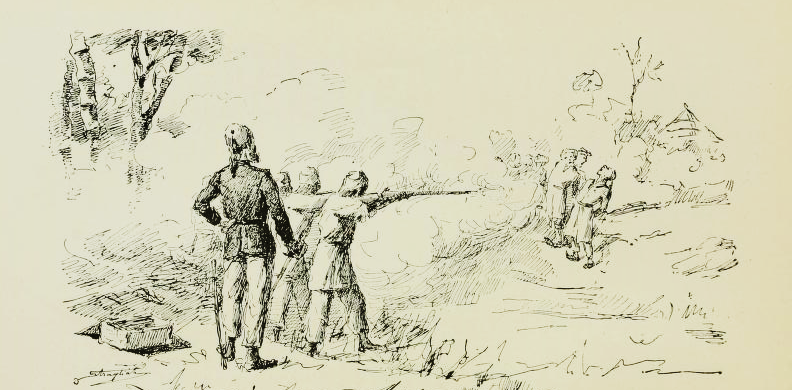 The execution of Suleiman Zubeir by Romolo Gessi's soldiers after his surrender in 1879